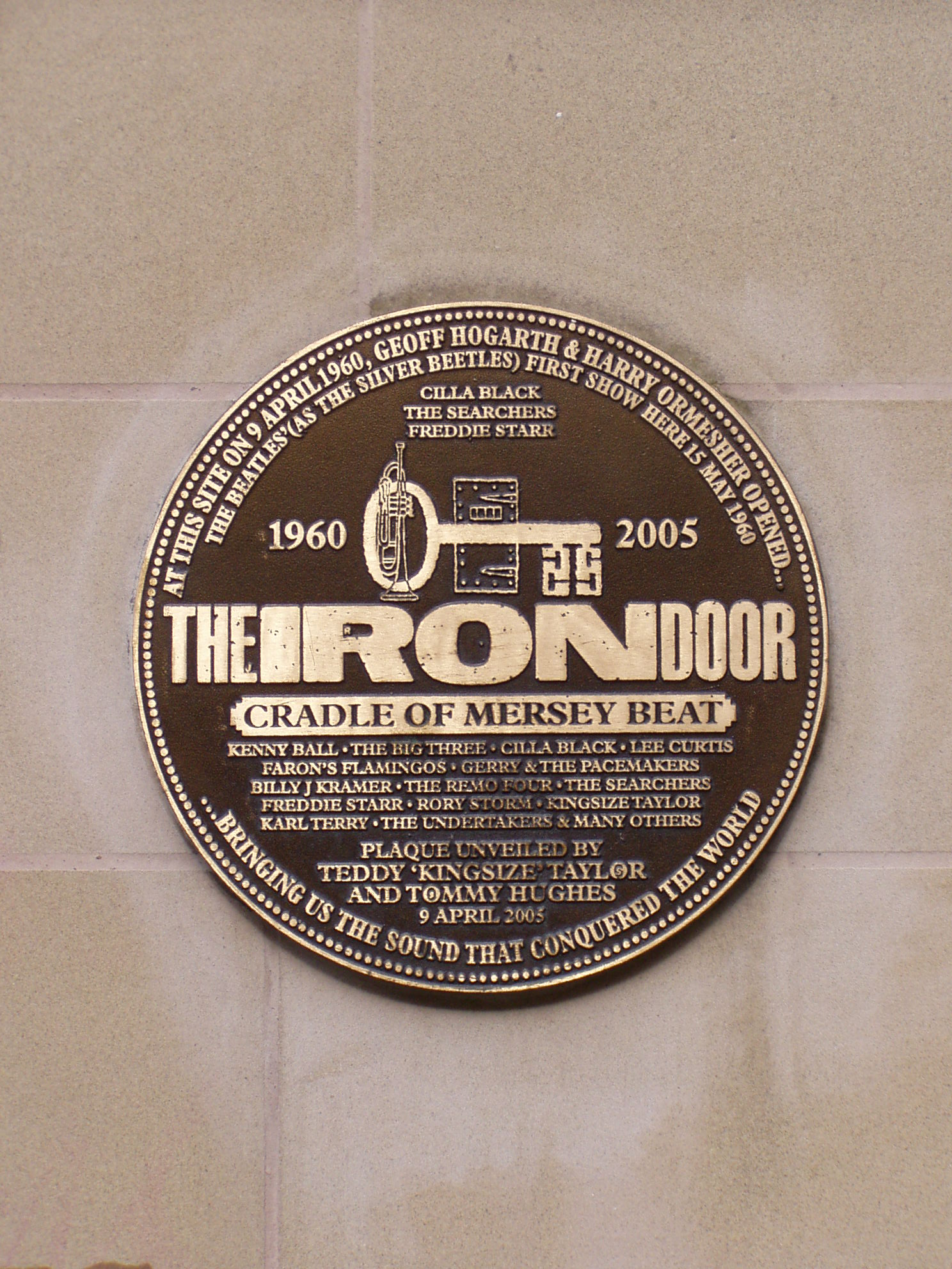 Plaque to the Iron Door Club important in Beatles and Mersey Beat History